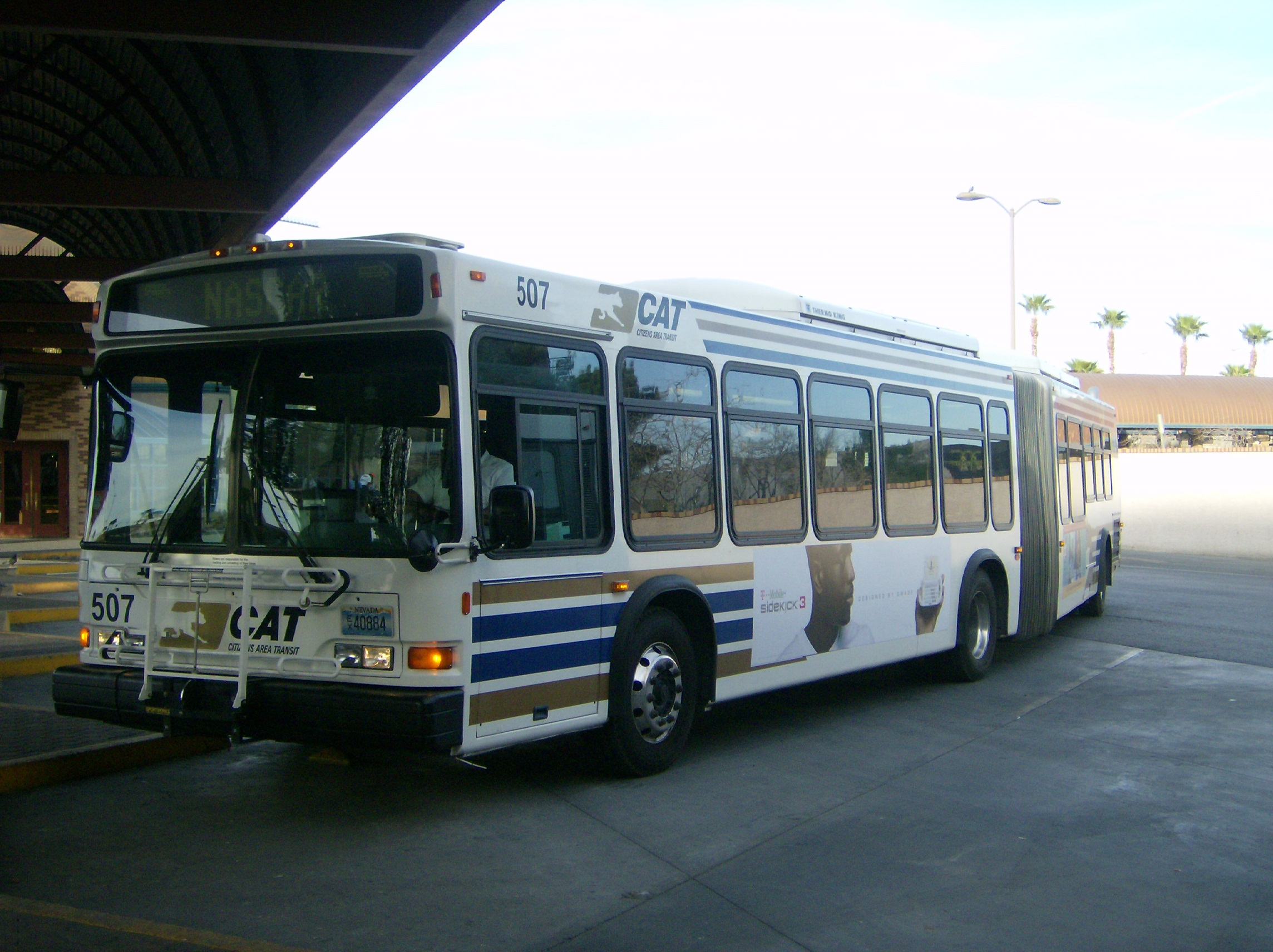 CAT Neoplan AN460L.